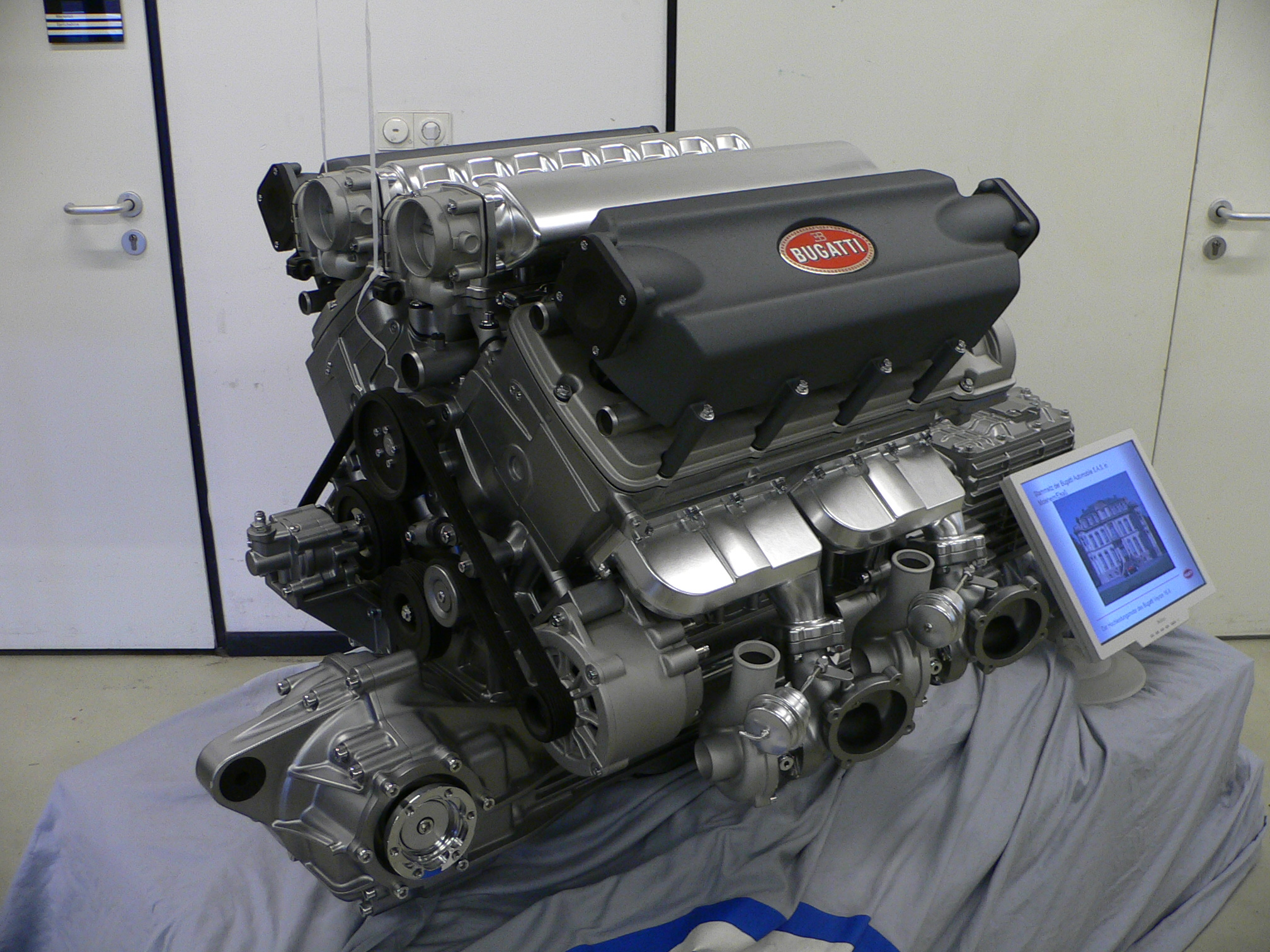 Volkswagen Group designed Bugatti W16 engine.